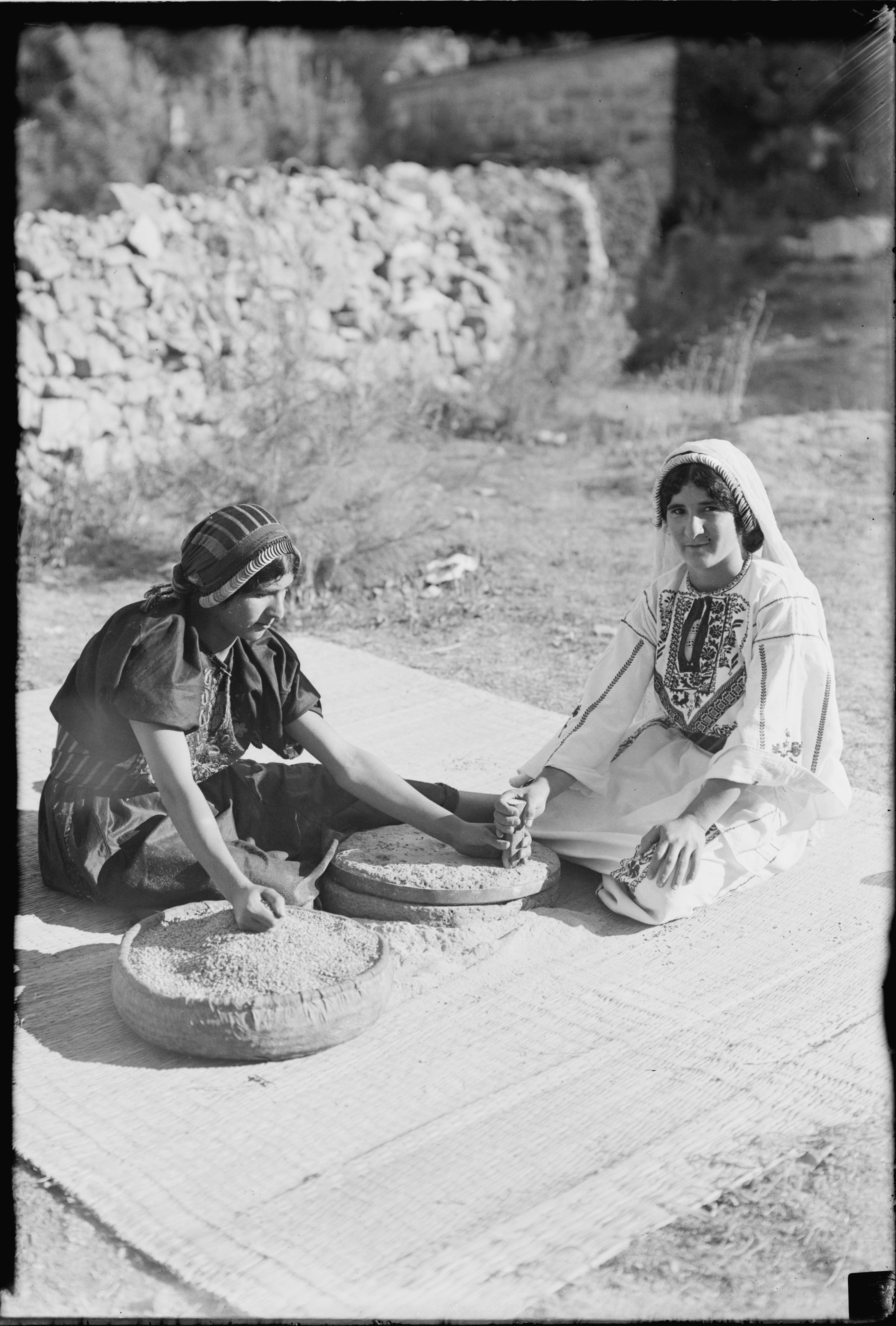 Title: Arab women working primitive grain mill Abstract/medium: G. Eric and Edith Matson Photograph Collection Physical description: 1 negative